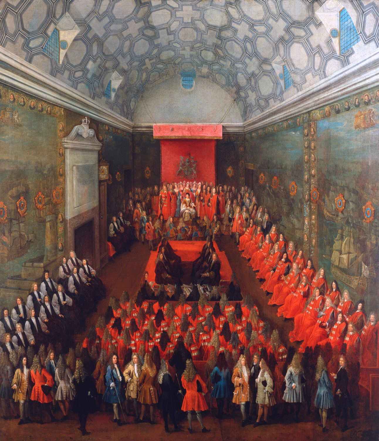 Queen Anne addressing the House of Lords